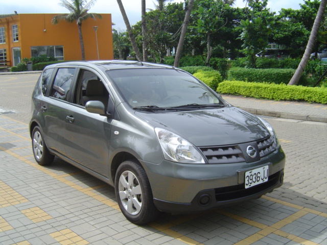 Nissan Livina中文（台灣）: 日產骊威